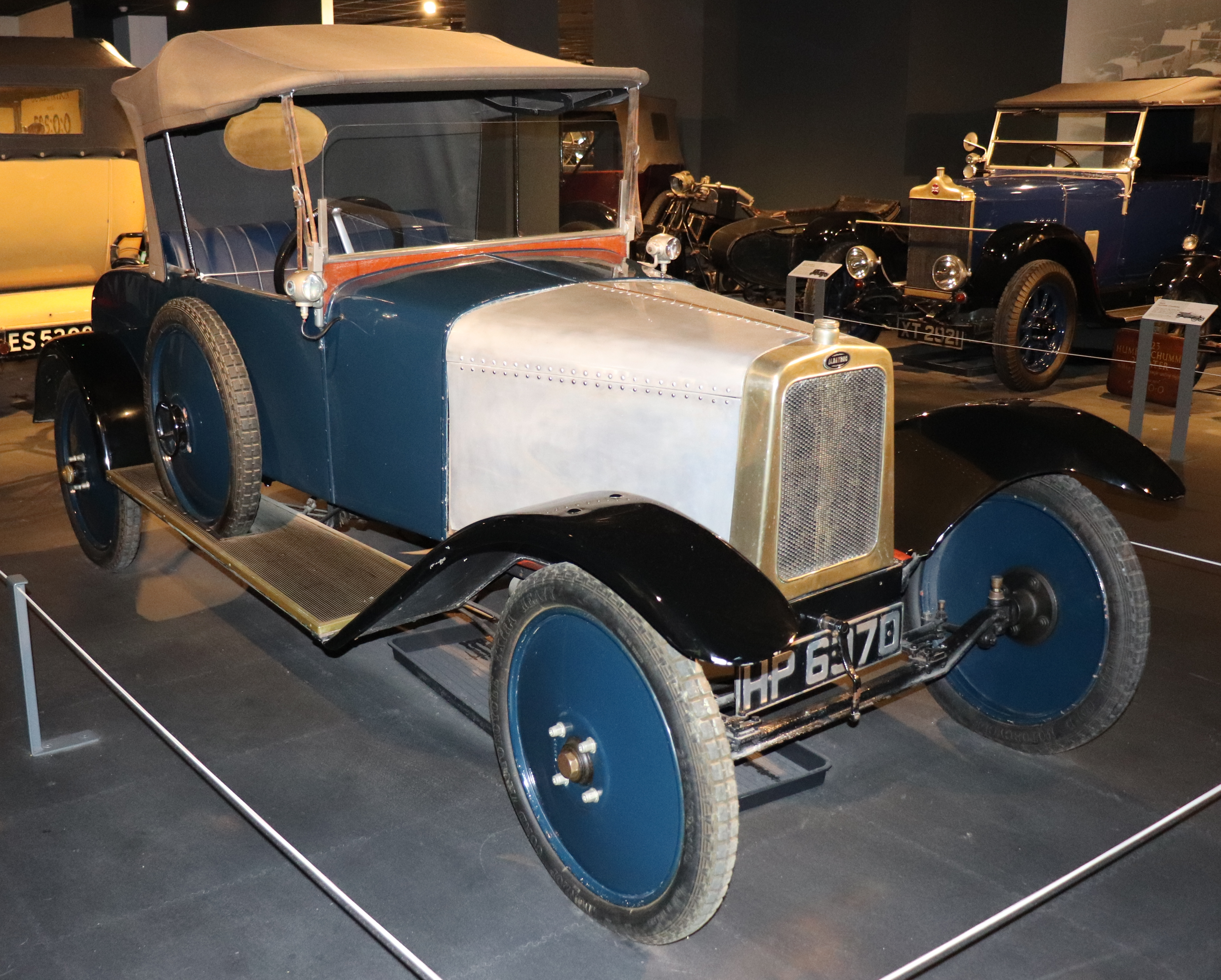 1923 Albatros 10HP Front Taken in the Coventry Transport Museum